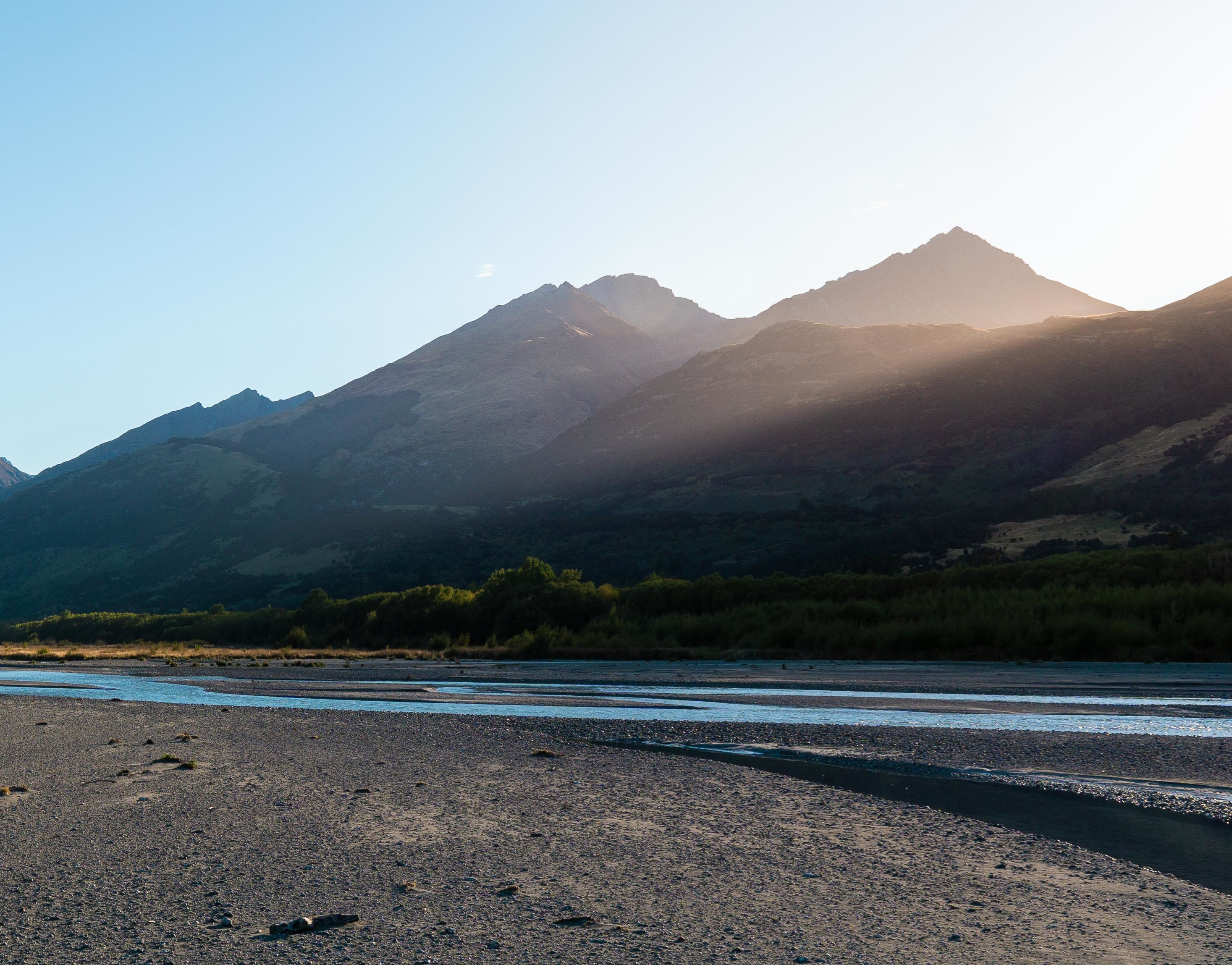 River in Glenorchy, New Zealand. The site of Isengard from the Lord of the Rings films. LOTR Please link to this page for attribution